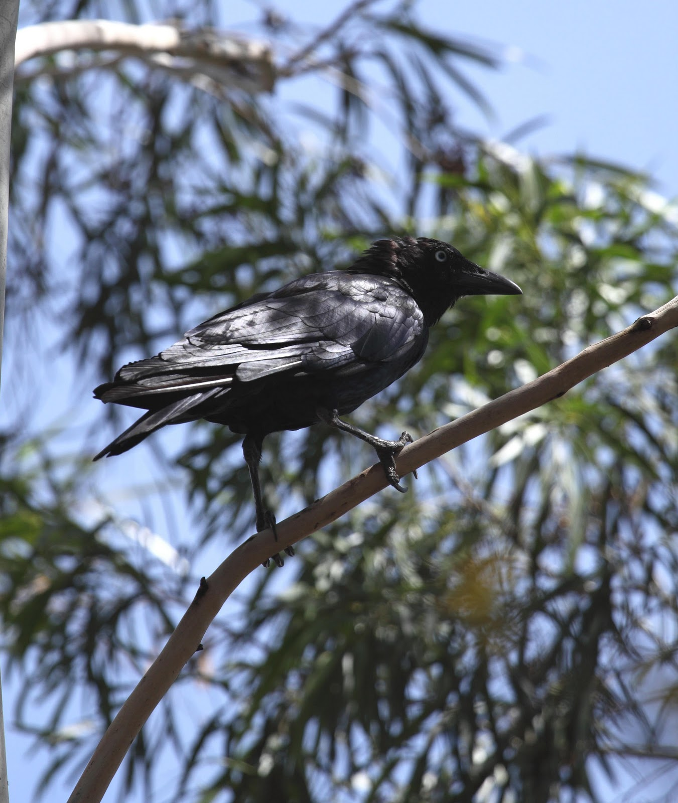 Little Crow (Corvus bennetti'), Northern Territory, Australia